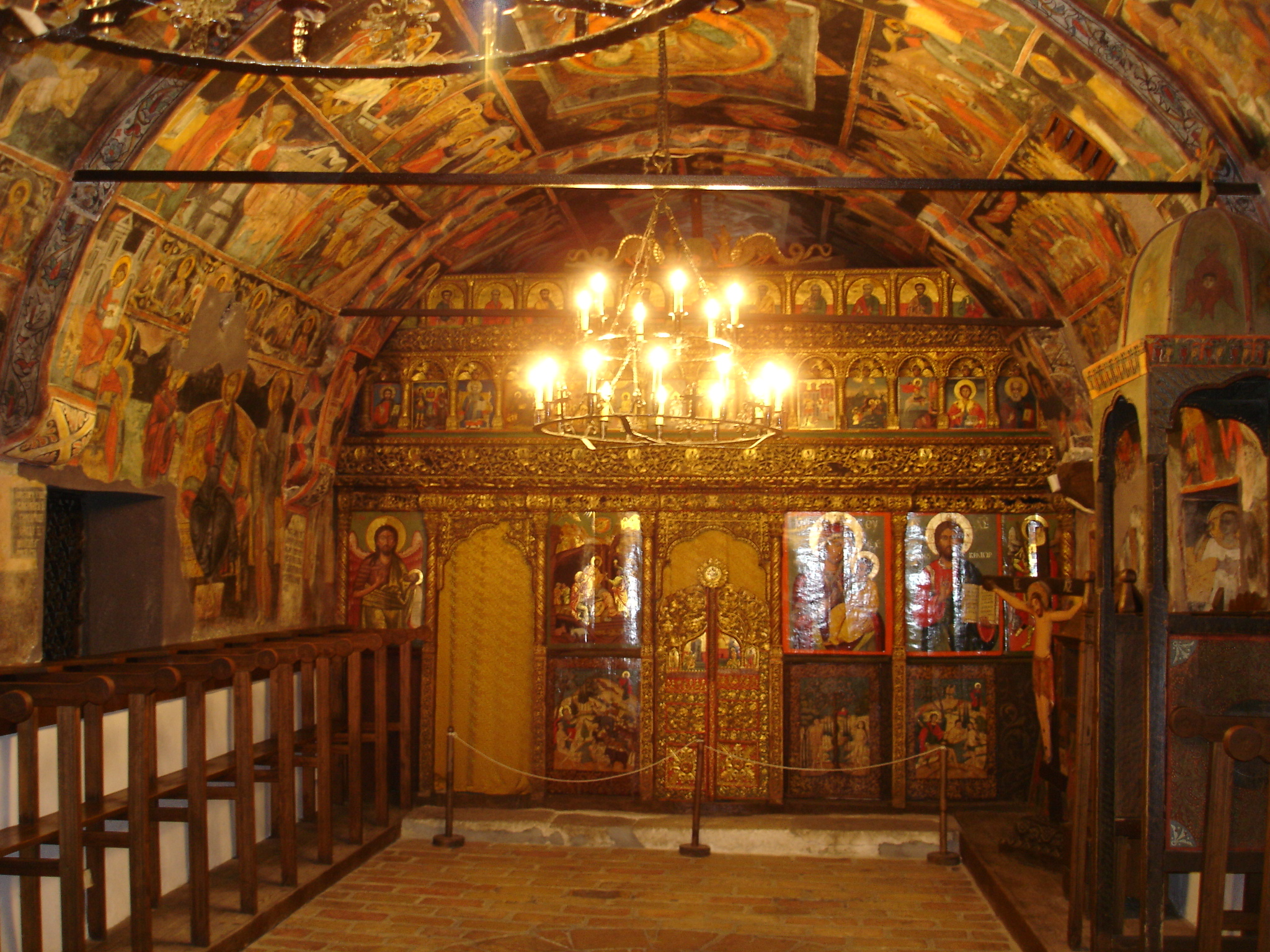 Arbanasi, Architectural Preserve. Church of the Nativity of Christ, iconostasis